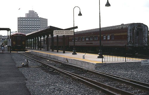 An OnTrack train at Armory Square - Downtown Syracuse station in July 1995